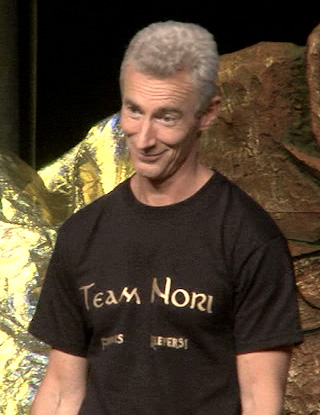 Jed Brophy on April 5, 2015 at the Hobbitcon III convention in Bonn, Germany